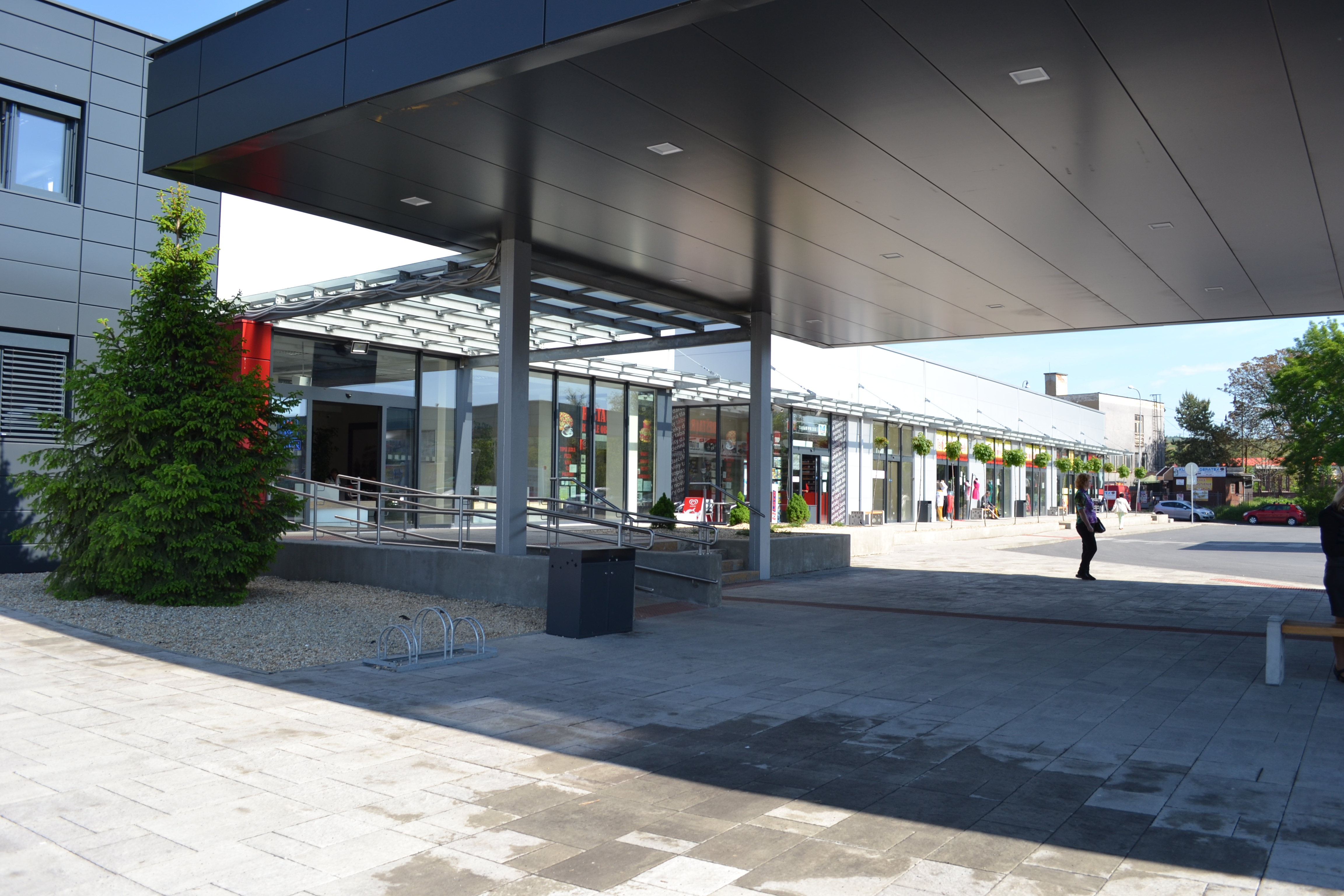 Bus Station in Rimavská Sobota (Slovakia)